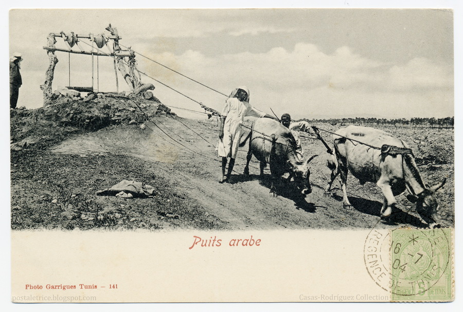 A_Deep_Well_In_the_Tunisian_Desert_(1904)_Old_Postcard